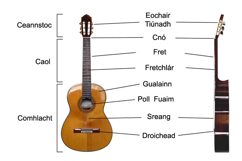 Classical guitar, with important parts labelled in Irish.